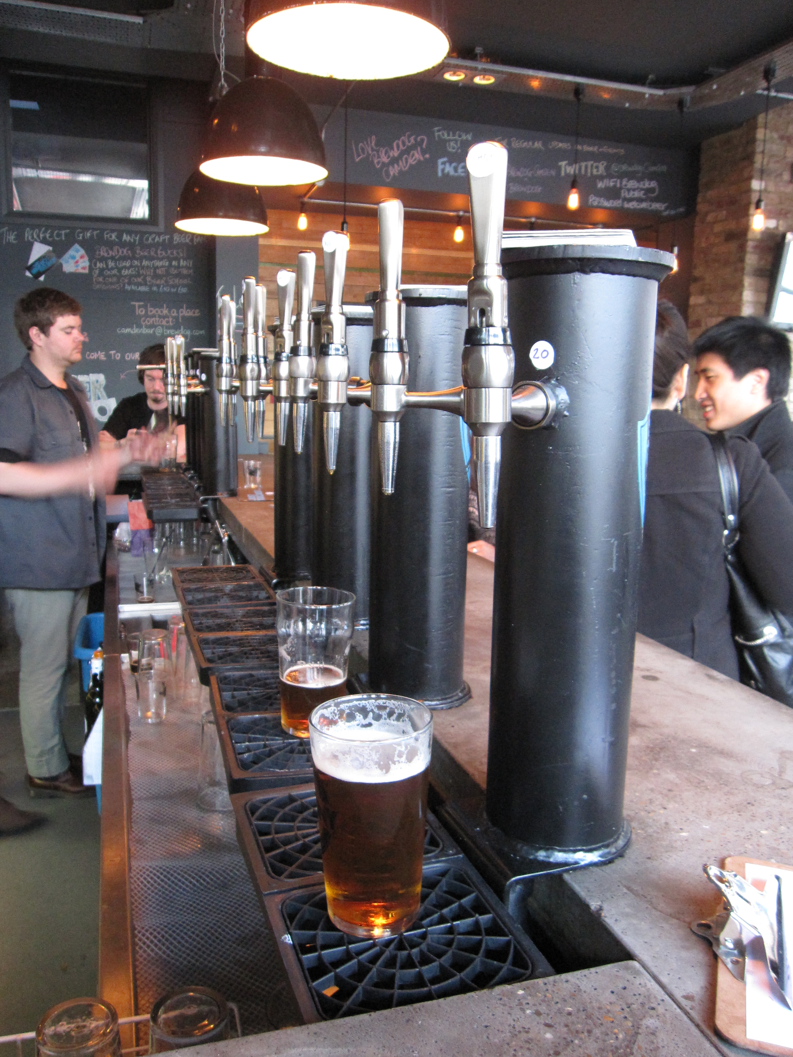 Brewdog bar in Camden, London, UK